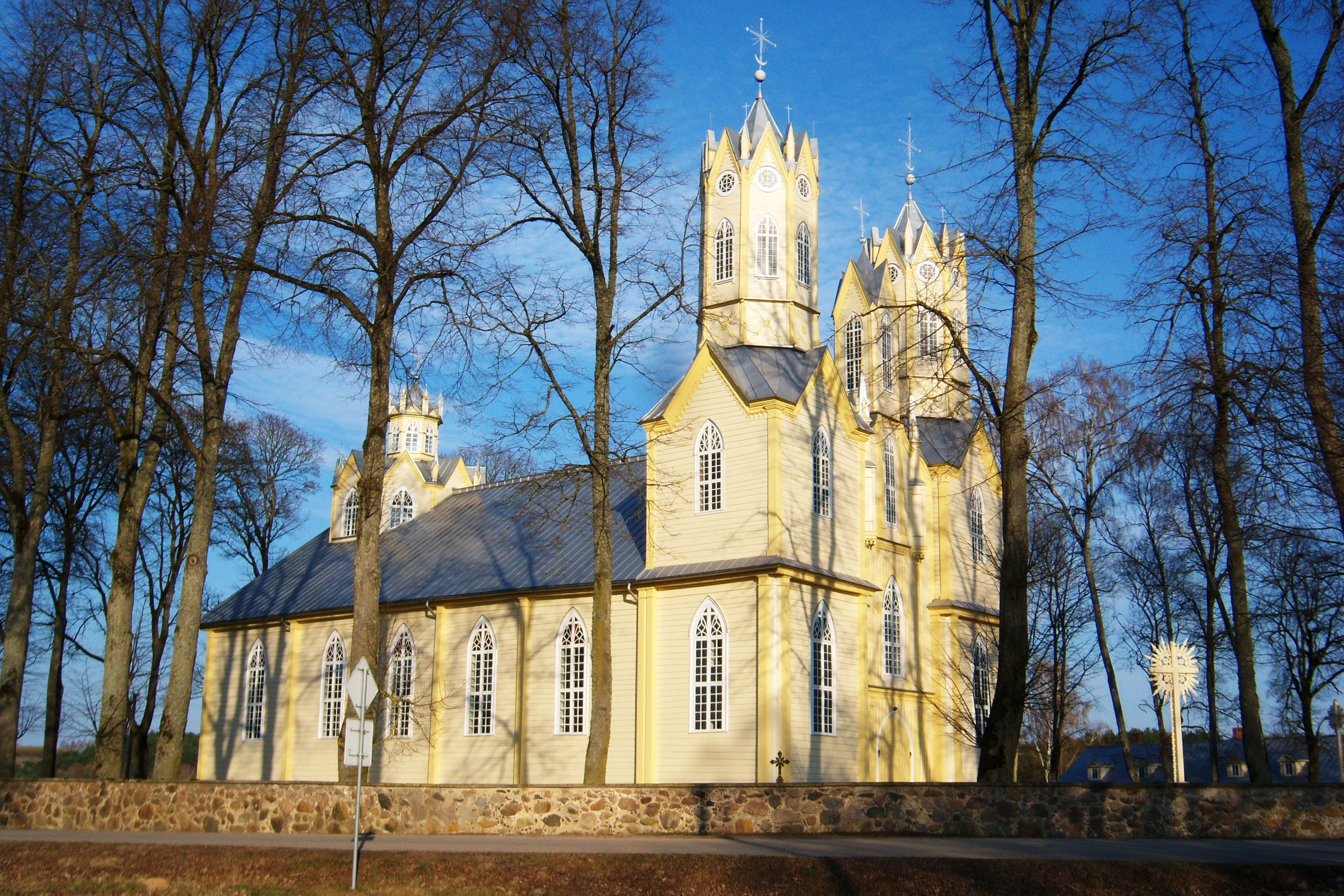 St. Peter and St. Paul's Church, Nemajūnai, Birštonas municipality, Lithuania